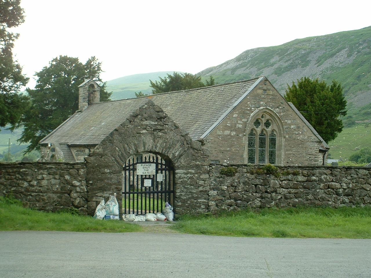 Church of St. Michael, Llanfihangel-y-pennant, Wales. Taken by Necrothesp, 28 June 2005.